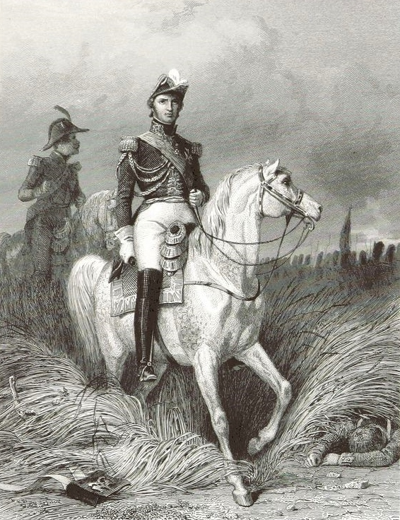 Marshal Louis-Nicolas Davout on horseback